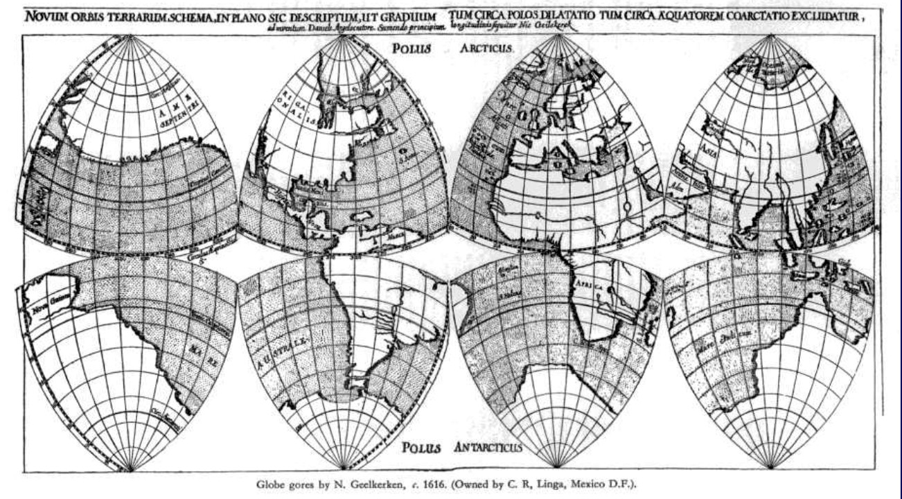 Nicolaas-Geelkercken Projection of 1616 evolution of Da Vinci's Octant Projection